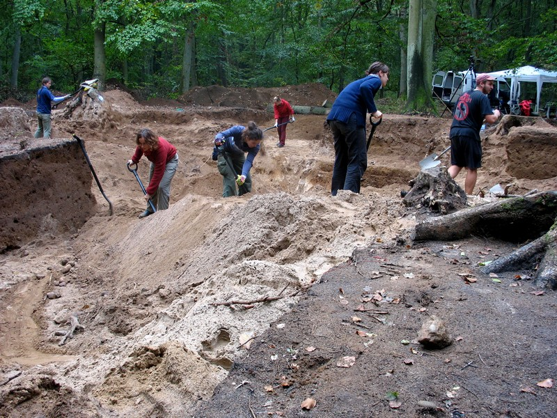 Lubieszewo, position 3, (Tunnehult) - Ducal tumulus. Archaeological investigations - 2006. Lubieszewo, administrative district Gryfice, Poland.